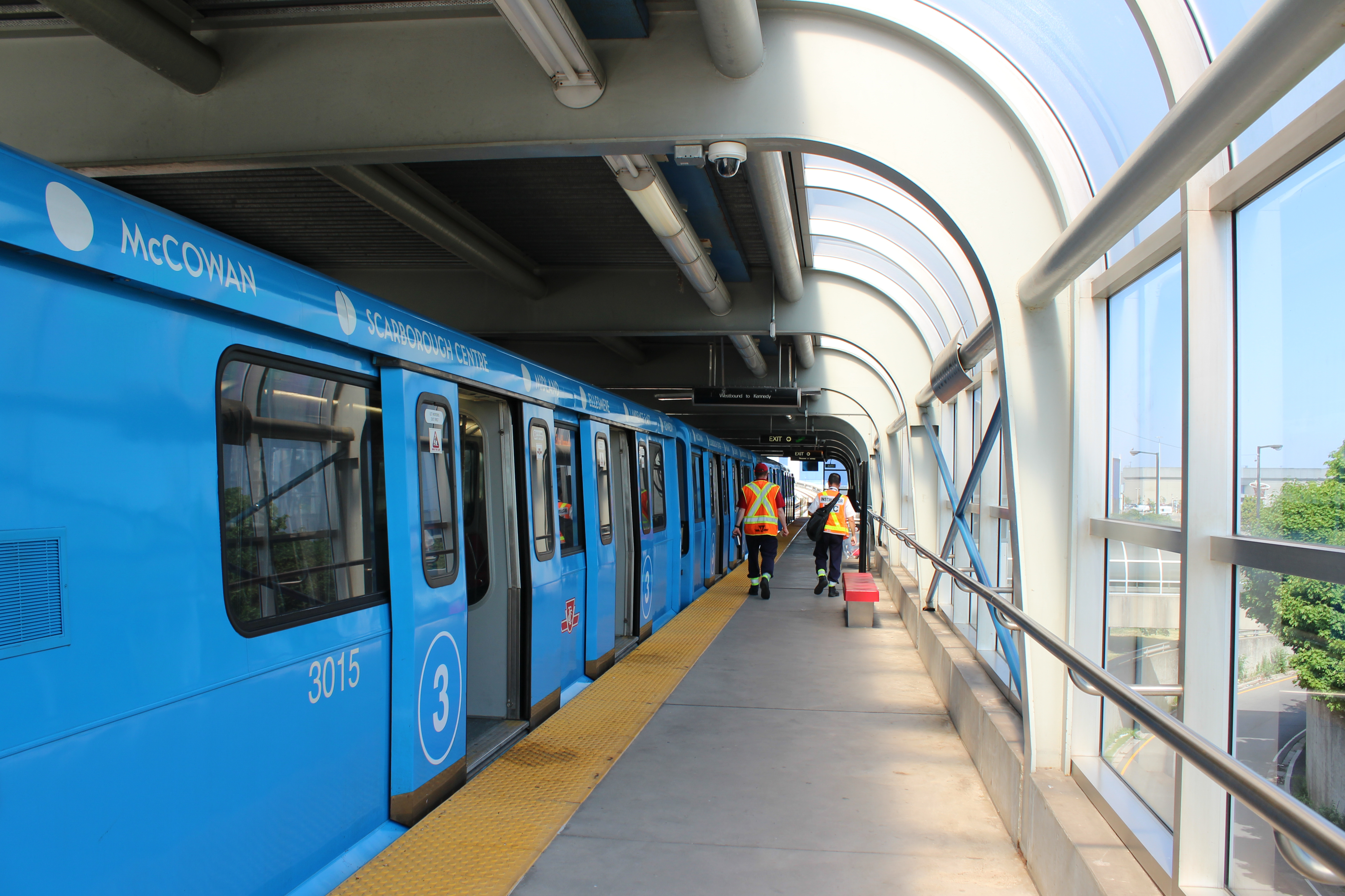 McCowan station on Line 3 Scarborough.